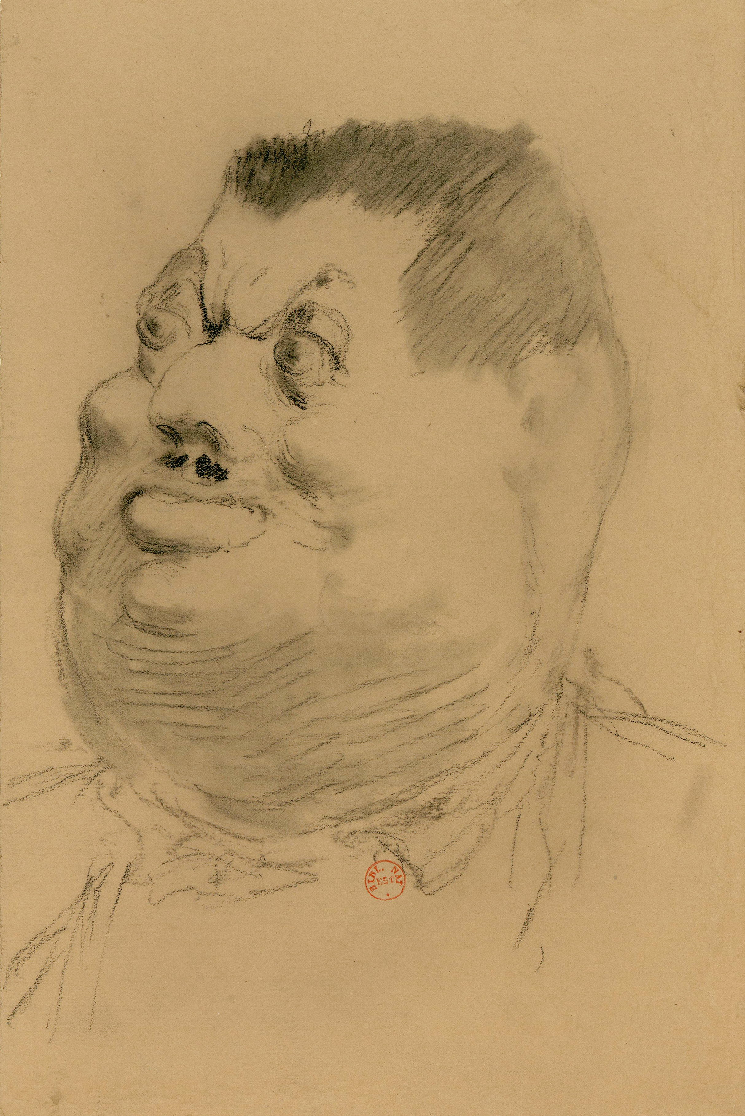 Caricature of Hippolyte de Villemessant (1810–1879) French media proprietor.